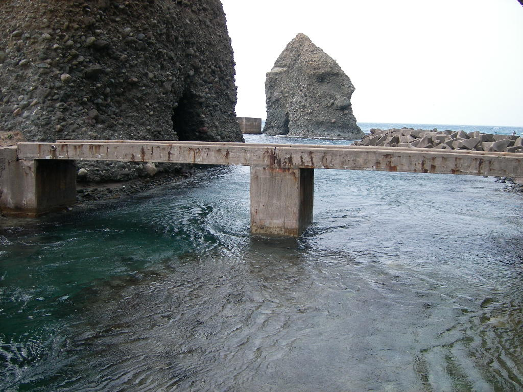 Iwami Tatami-ga-ura.